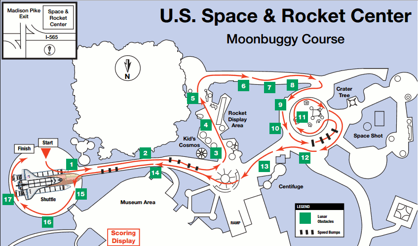 Course map The NASA Great Moonbuggy Race course and specific obstacles vary slightly in detail from year to year. This outline gives participants a general idea of the course layout. The starting line is located under the space shuttle, near the “Pits” Area where moonbuggies are inspected and repaired. Obstacle 1 is under the space shuttle. Next, the course slopes up slightly on a paved path that leads to Obstacle 2, travels over a hill, and then slopes downward to Obstacle 3. A sharp turn to the left leads through the U.S Space & Rocket Center’s rocket display area to Obstacles 4 and 5. The course turns sharply to the right, remaining on asphalt and moving uphill through Obstacles 6, 7, and 8. At the end of this straight section, a sharp turn brings participants to Obstacles 9 and 10, on the circular downhill path leading to the lunar crater area. The course veers left into the permanent crater area and Obstacle 11. Racers must take a 360-degree, clockwise turn around this simulated lunar surface. Its largest interior crater includes a challenging 18-inch (45 cm) change in terrain. Exiting the crater area, moonbuggies turn right toward Obstacles 12, 13, and 14, on a path that starts flat, then slopes uphill. At the last of these obstacles, it slopes downward again. Speed bumps help slow descent. Finally, the course takes a left turn as racers enter the shuttle area and tackle Obstacles 15, 16, and 17 before reaching the finish line.